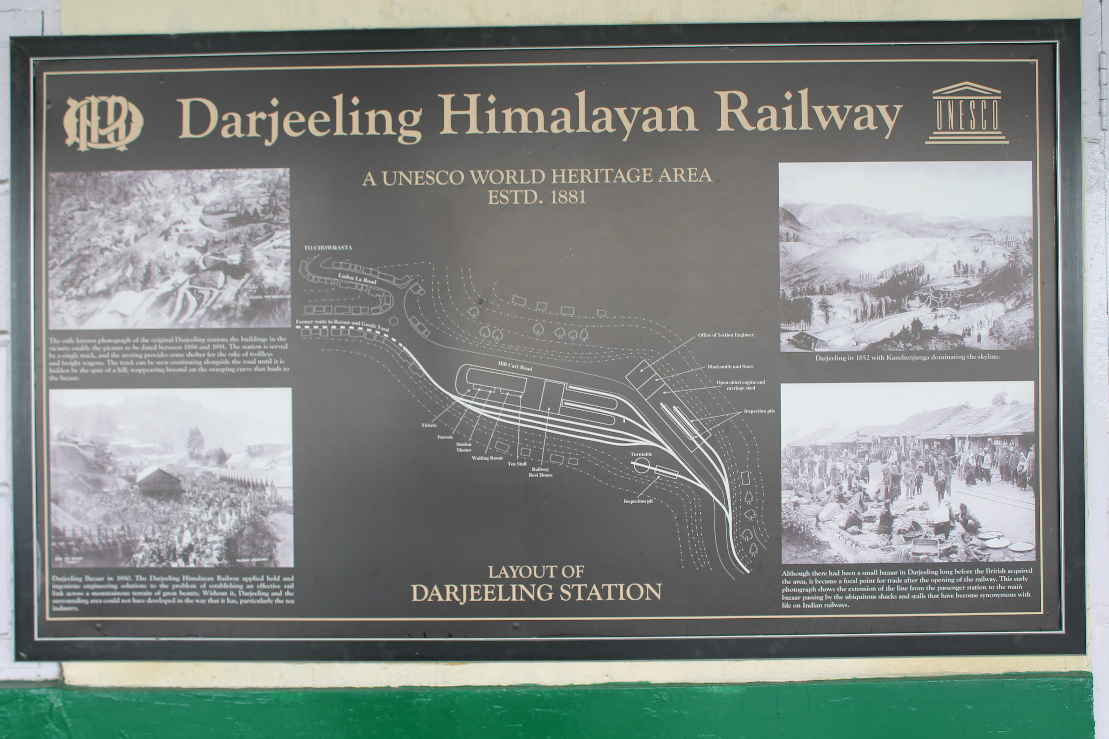 Board at Darjeeling Station displaying Station Layout